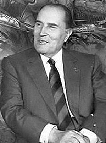 ADN-ZB Mittelstädt 8.1.1988 Frankreich: Honecker-Besuch Der Präsident der Französischen Republik, Francois Mitterand, empfing den zu einem Staatsbesuch in Paris weilenden Generalsekretär des ZK der SED und Vorsitzenden des Staatsrates der DDR, Erich Honecker, im Elysée-Palast zum Abschlußgespräch.